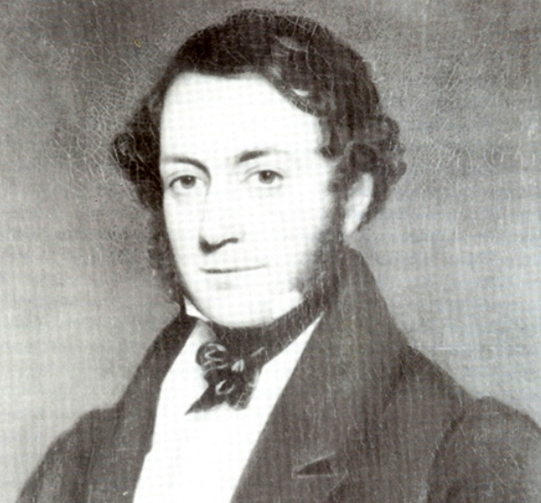 Francis Wright who owned Yeldersley Hall